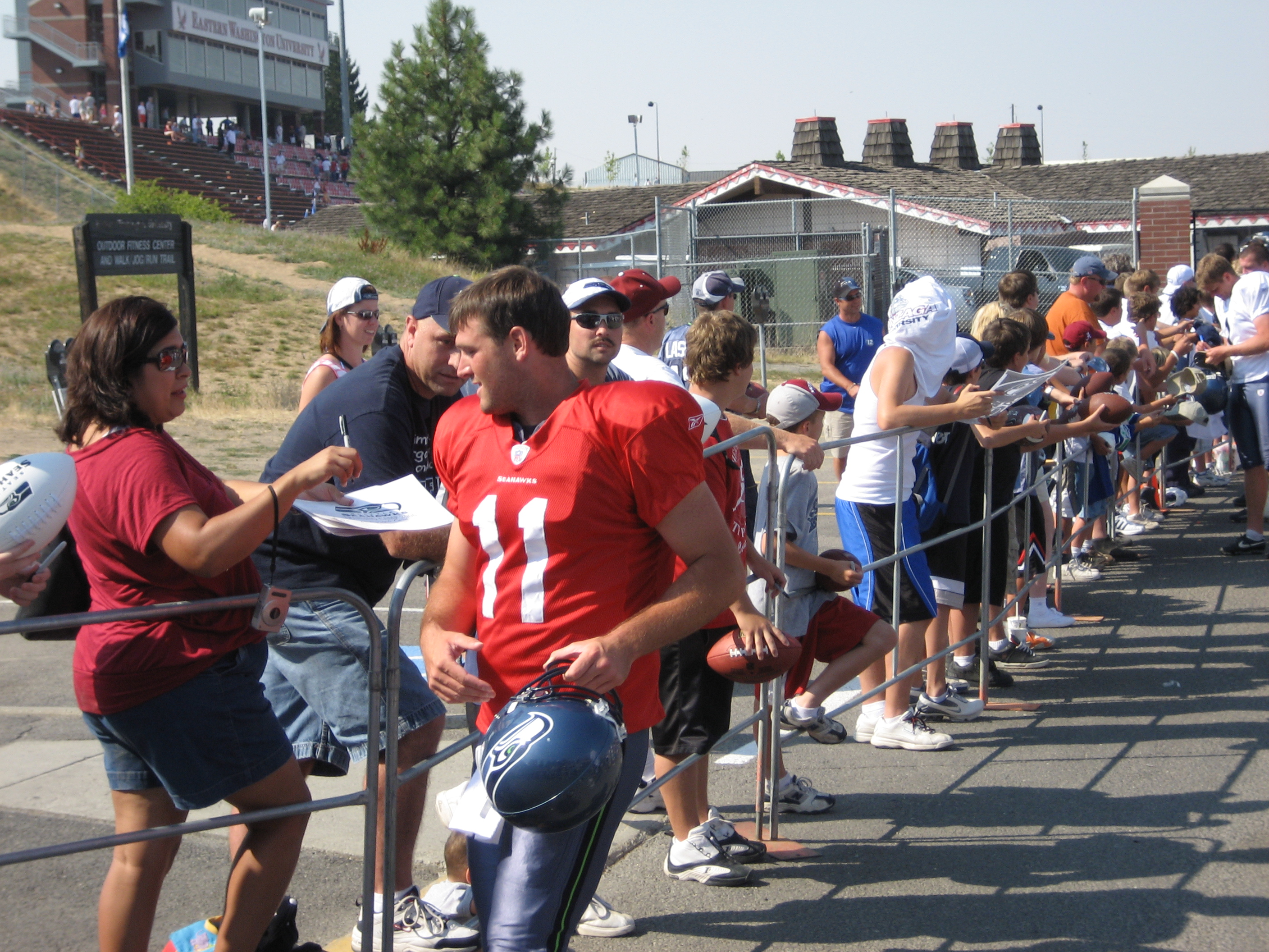 Picture of Seahawks players walking a gauntlet of fans at Eastern Washington University, Cheney Washington, following the team scrimmage. #11, 3rd QB, David Greene, Georgia, pauses to sign for a fan.